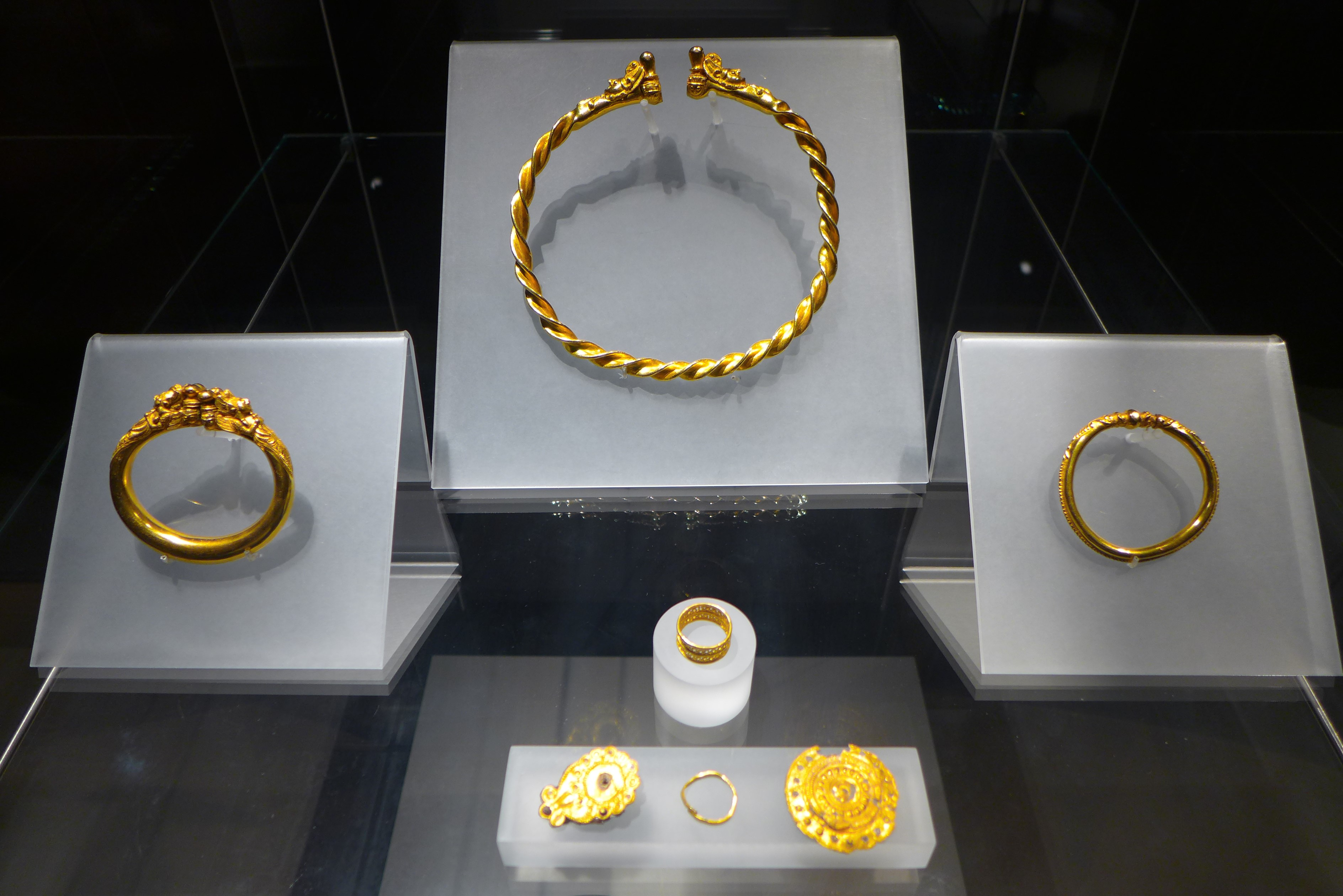 Goldschmuck einer keltischen Adeligen aus einem Grabhügel bei Reinheim